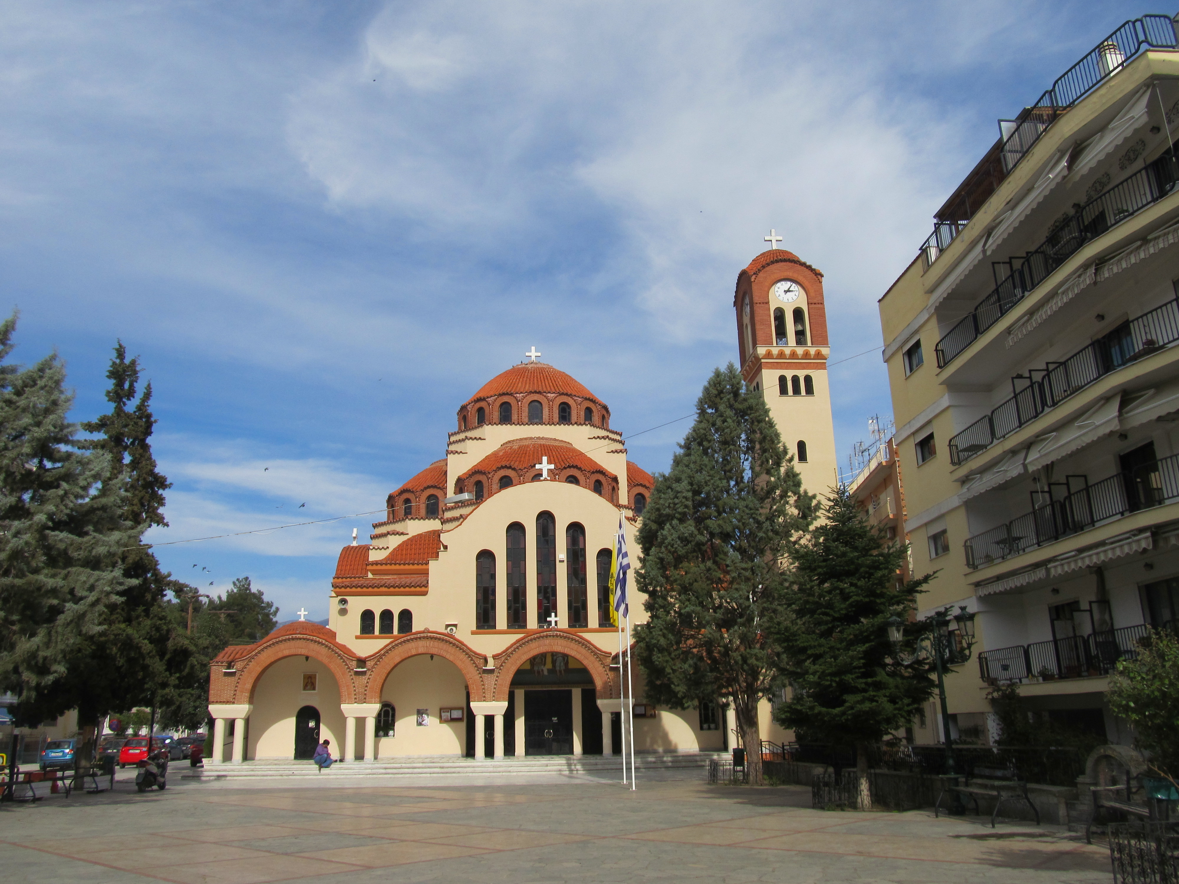 Archangel church, Serres, Greece